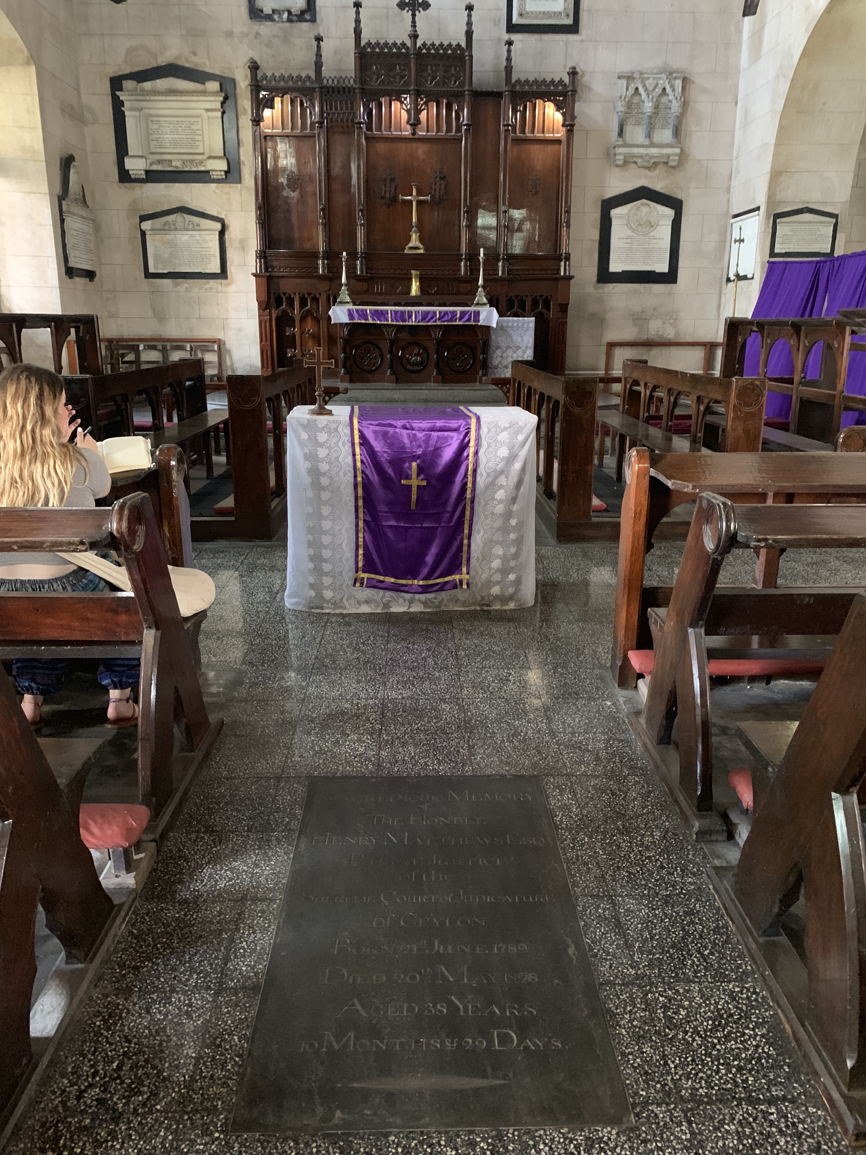 Interior of Church showing high altar.